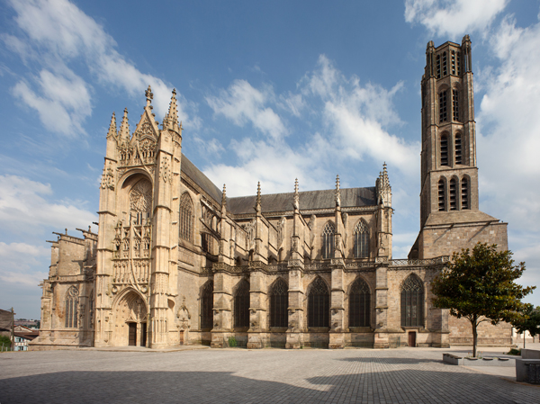 Cathédrale Saint-Étienne de Limoges; Limoges, Haute-Vienne, Limousin, France; partie nord; ref: PM_092899_F_Limoges; ; Photographer: Paul M.R. Maeyaert; © Paul M.R. Maeyaert; ; Cultural heritage; Cultural heritage/Cathedral; Europeana; Europe/France/Limoges